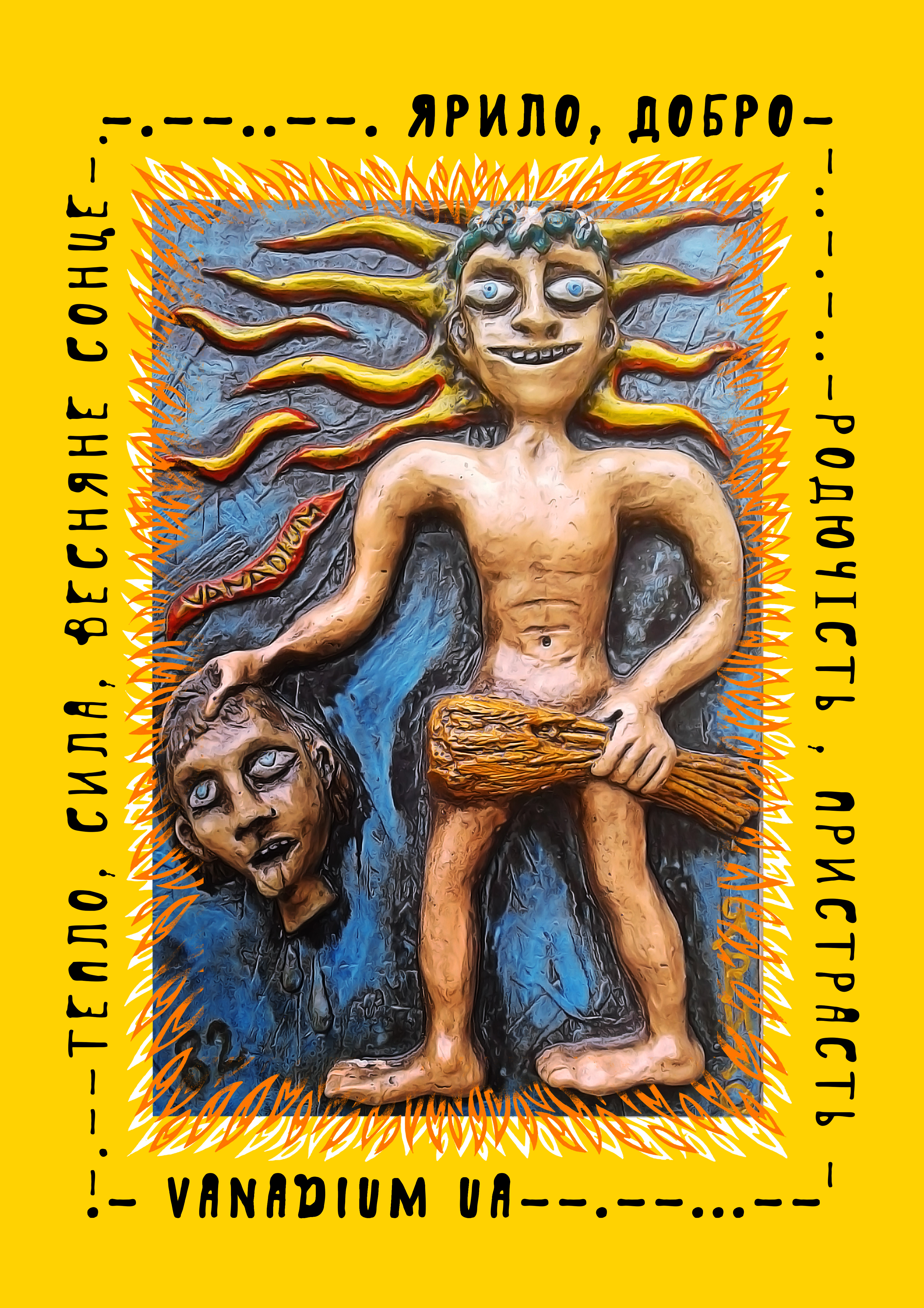 Yarylo (Yarilo) The God of the spring sun